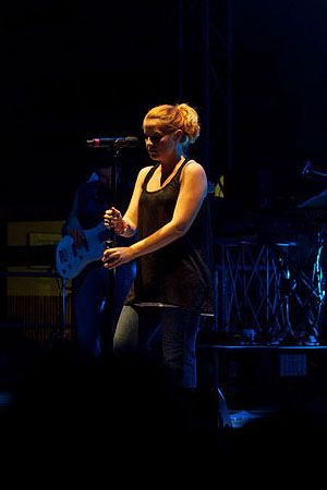 Italian singer Noemi during a concert - Varallo, Alpàa 2010.